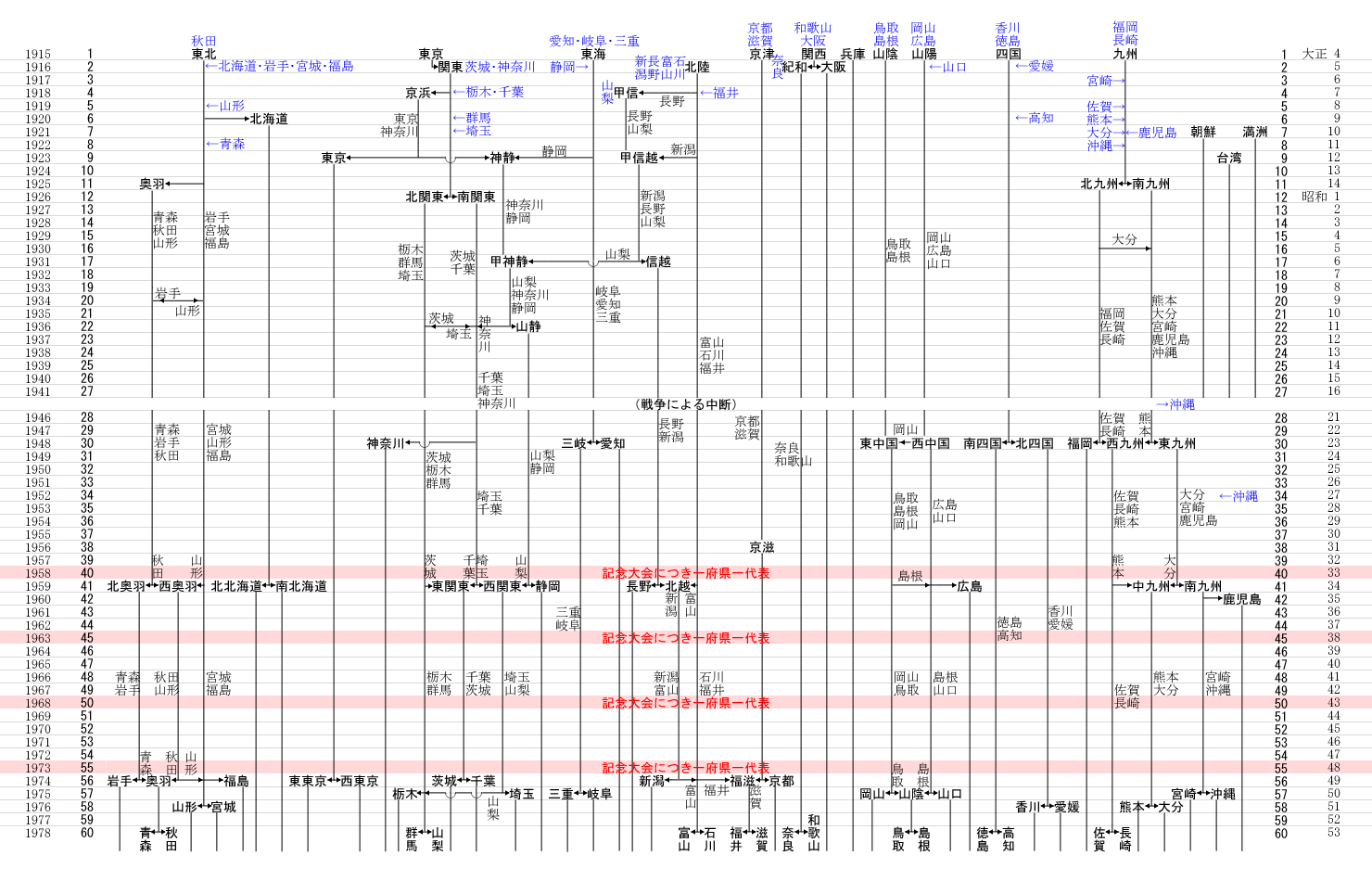 The history of the national high school baseball championship of Japan